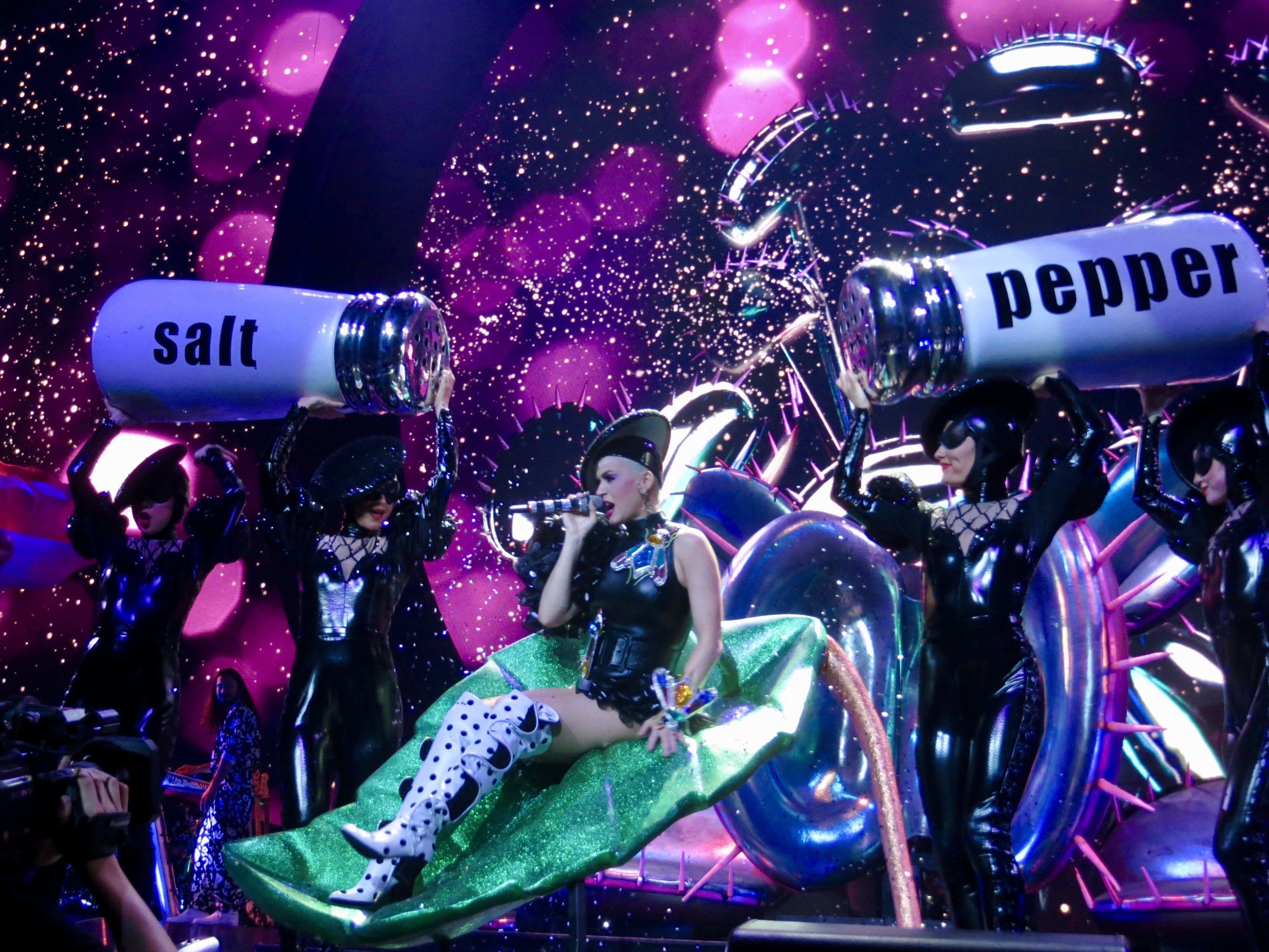 Katy Perry 11